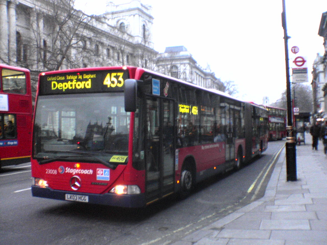 Stagecoach London 23008 (LX03 HCG), a Mercedes-Benz Citaro G on London Buses route 453 at the Parliament Square junction, Westminster, London.